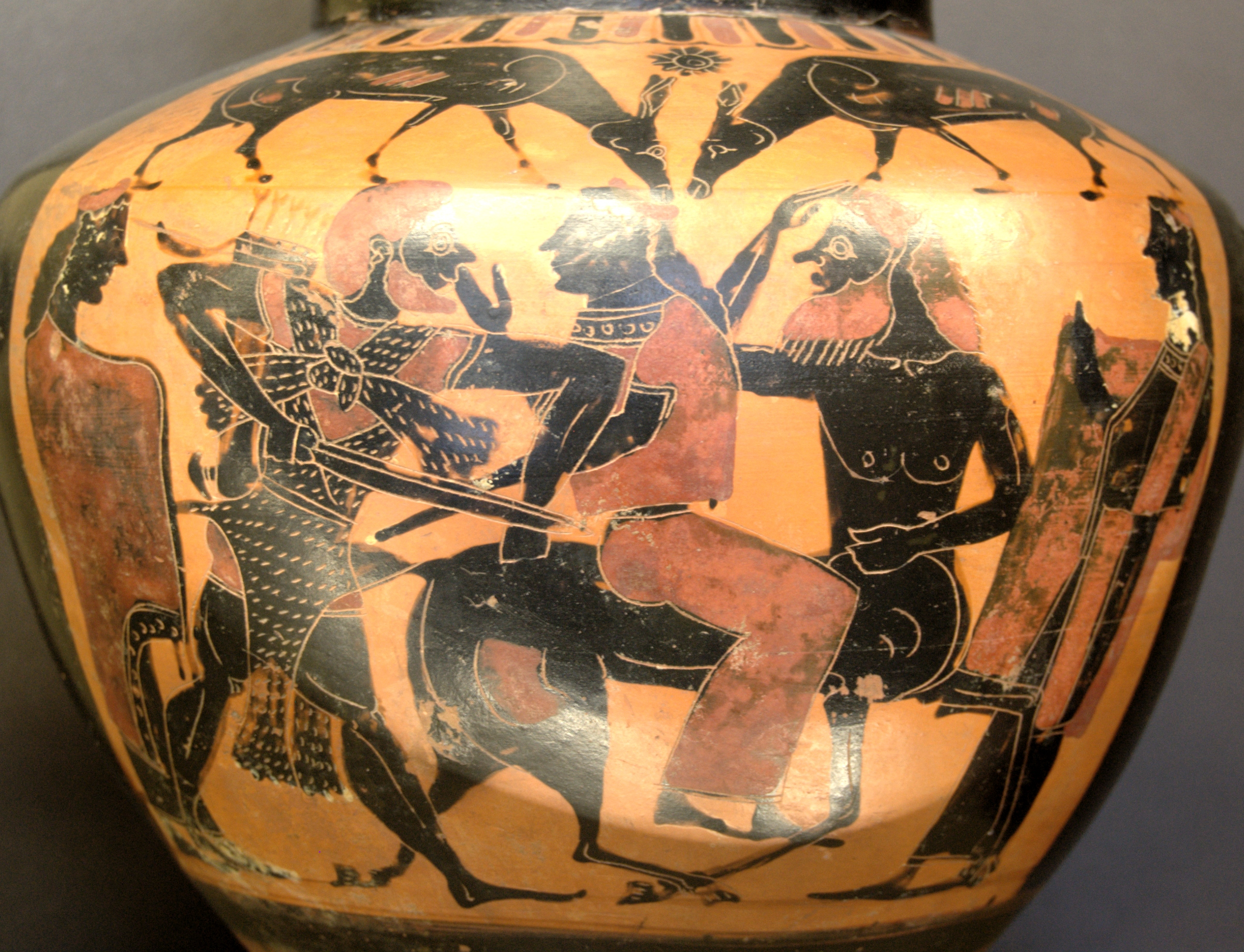 Heracles, Deianira and Nessus. Attic black-figured hydria, ca. 575–550 BC.